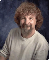 A photograph from Los Alamos National Laboratory internal news journal. Taken from W.H. Zurek's webpage